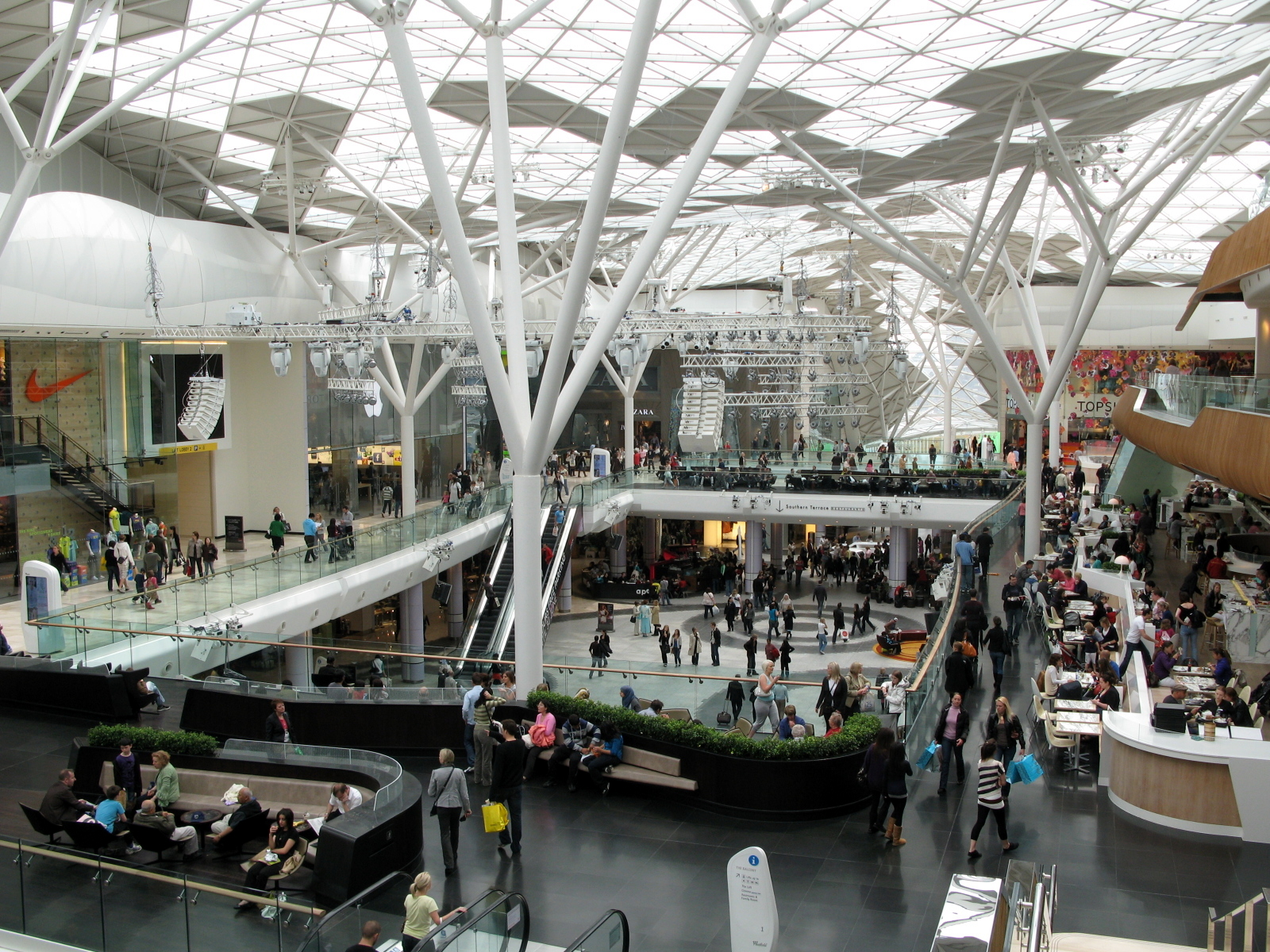 Westfield London Main Atrium